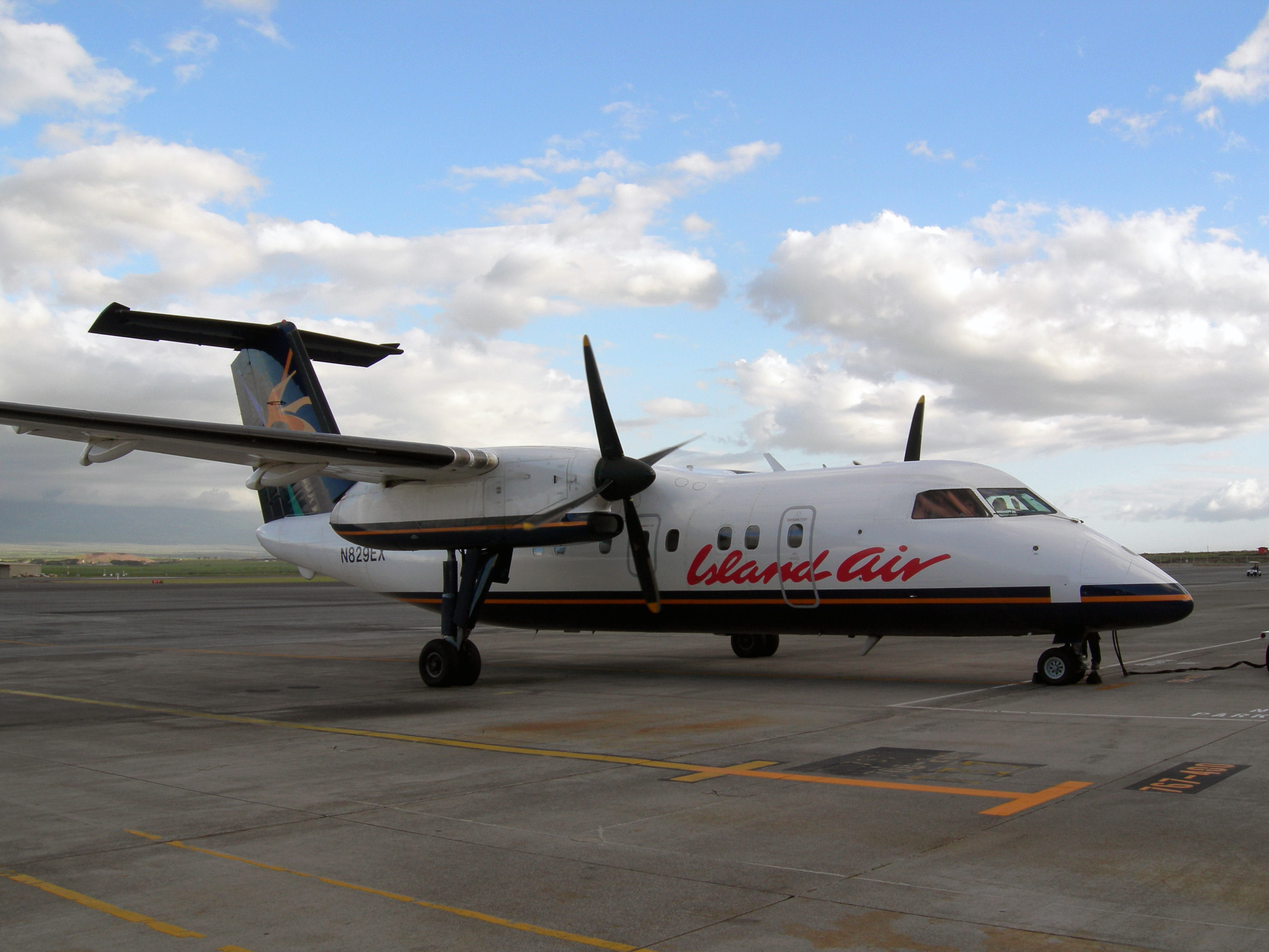 Island Air DHC-8 Dash 8 N829EX photographed at Kahului, Maui